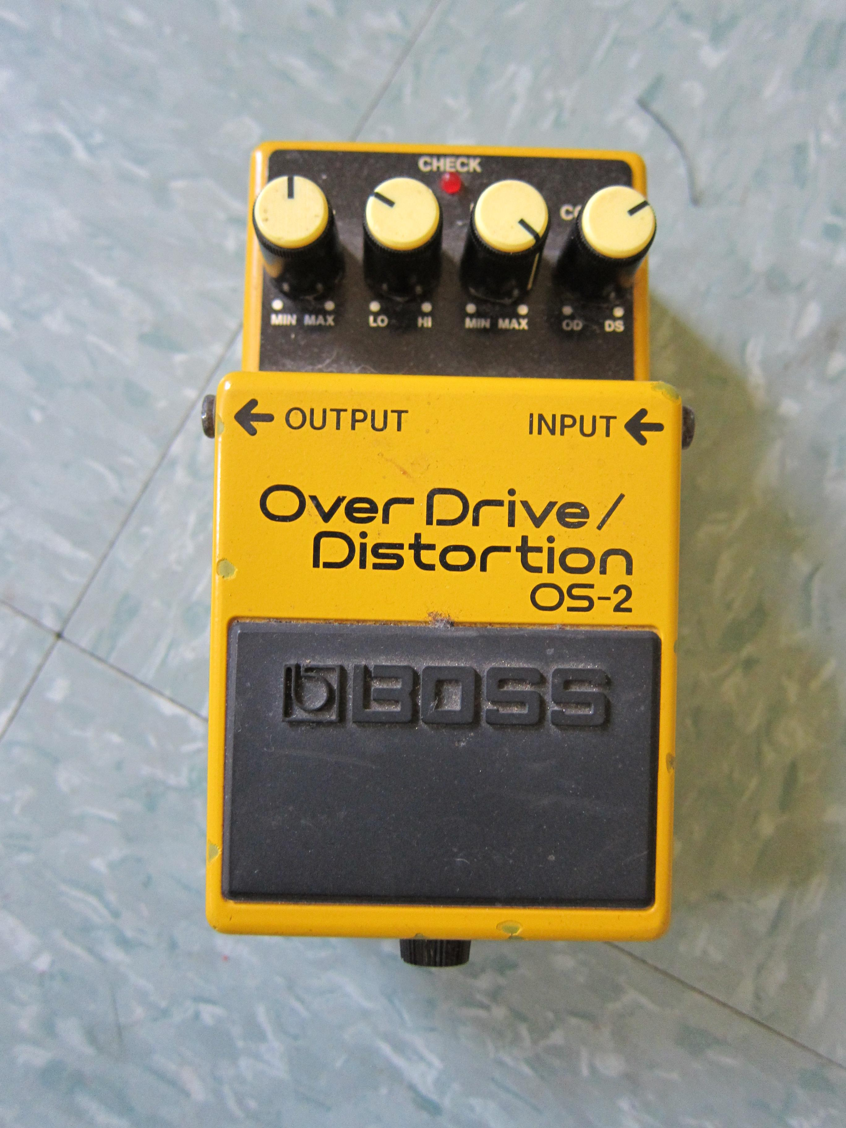 BOSS OS-2 OverDrive Distortion